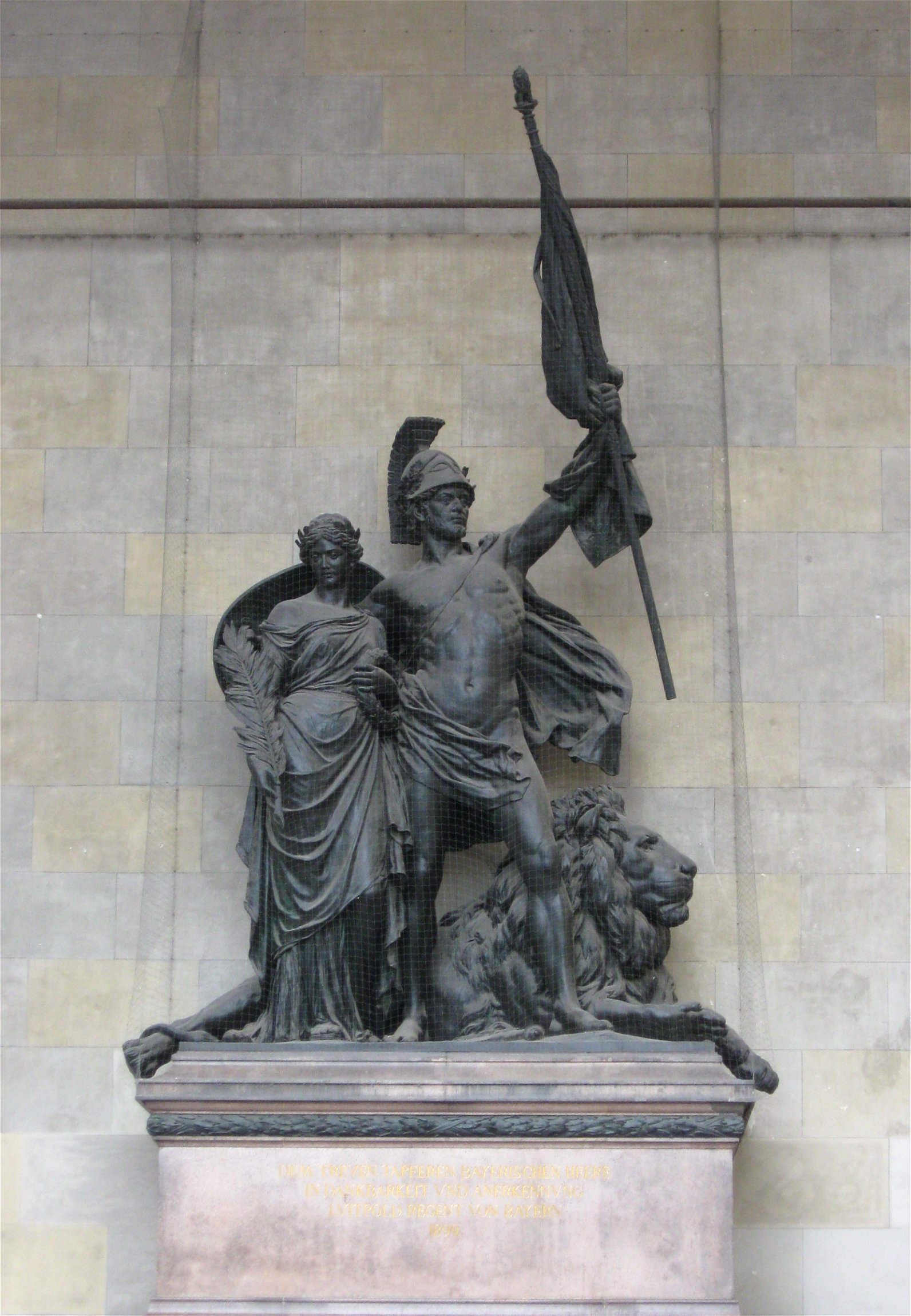 General's Hall, Munich. Bavarian Army Monument; Sculptor Ferdinand von Miller (1892)